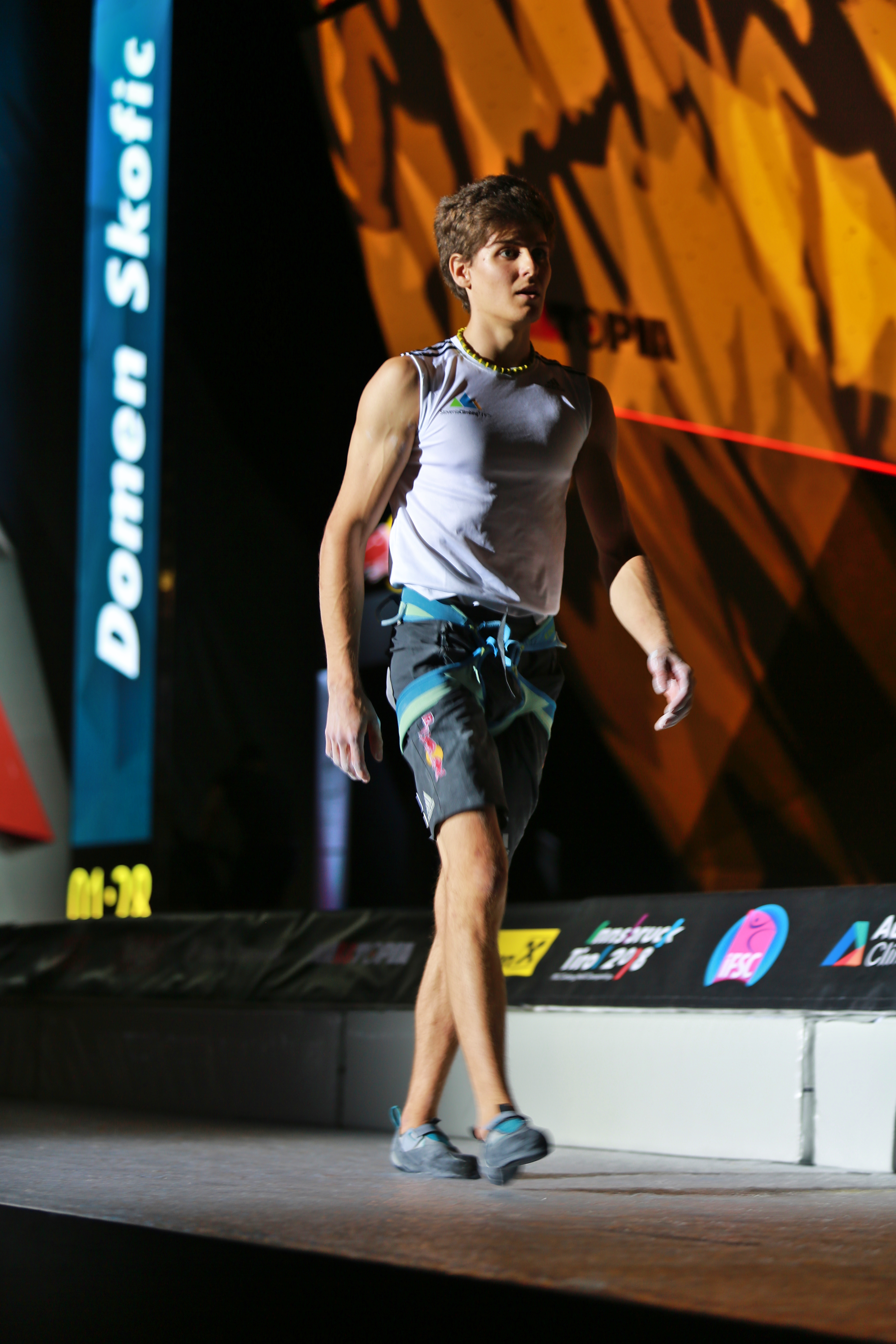 Climbing World Championships 2018 Lead Semi Skofic